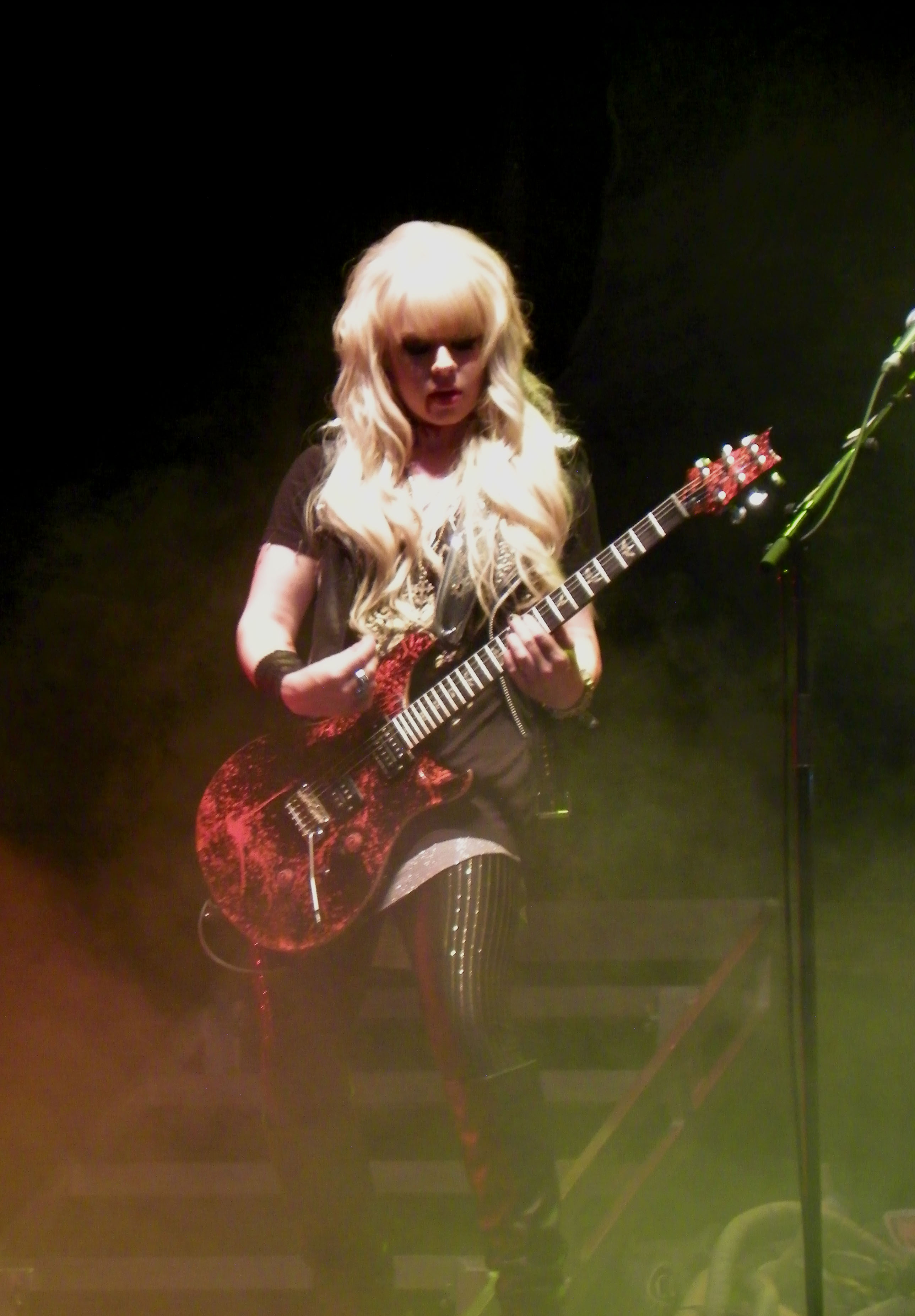 Alice CooperView photos from this member or from everyone Alice Cooper 2011 Alice Cooper's Halloween Night of Fear 2011 Orianthi